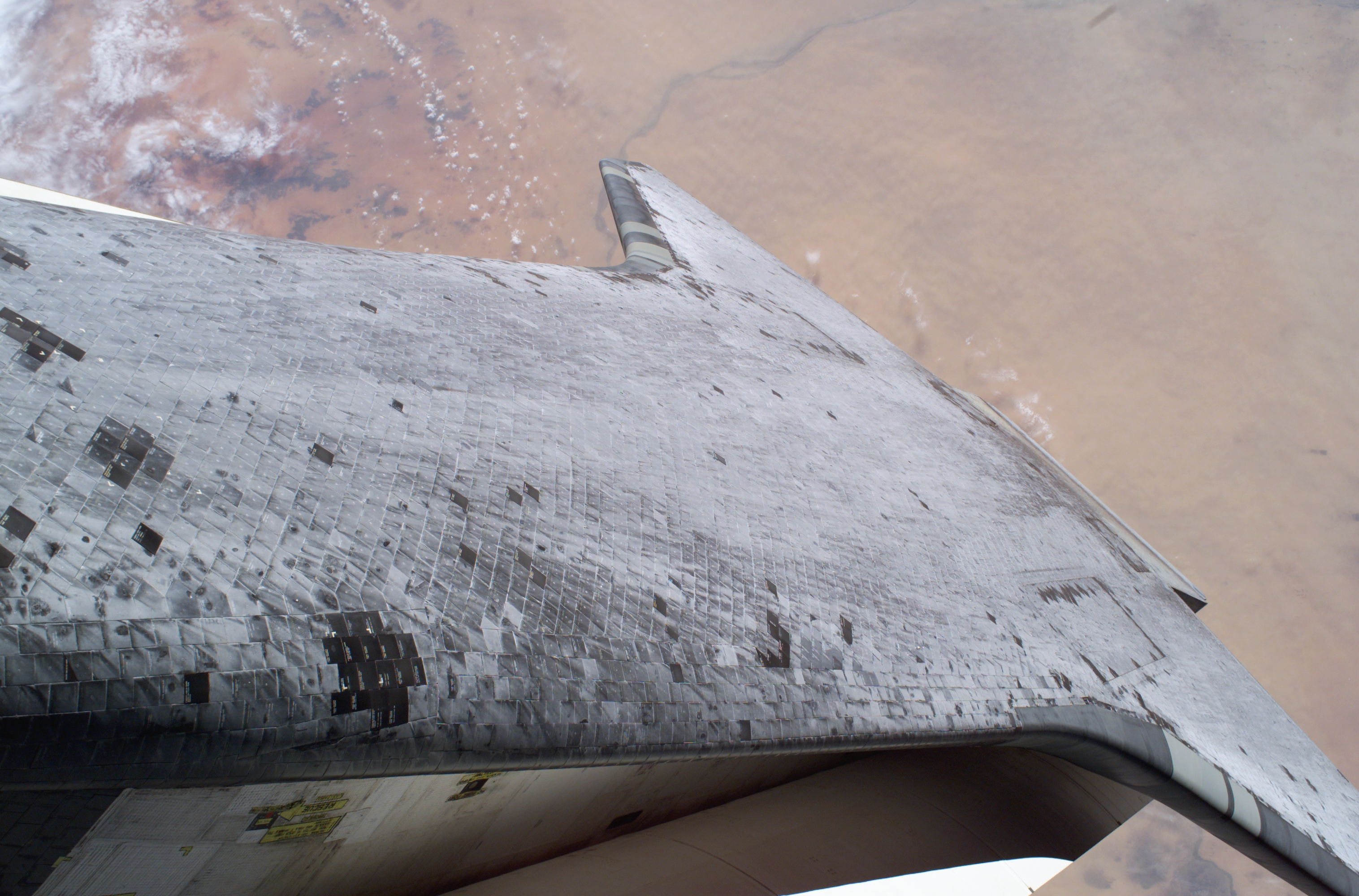 Space Shuttle Discovery’s underside thermal protection tiles are featured in this image photographed by astronaut Stephen K. Robinson, STS-114 mission specialist, during the mission’s third session of extravehicular activities (EVA)